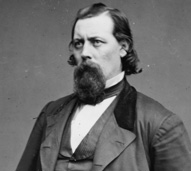 Ward Lamon Hill, Lincoln's bodyguard